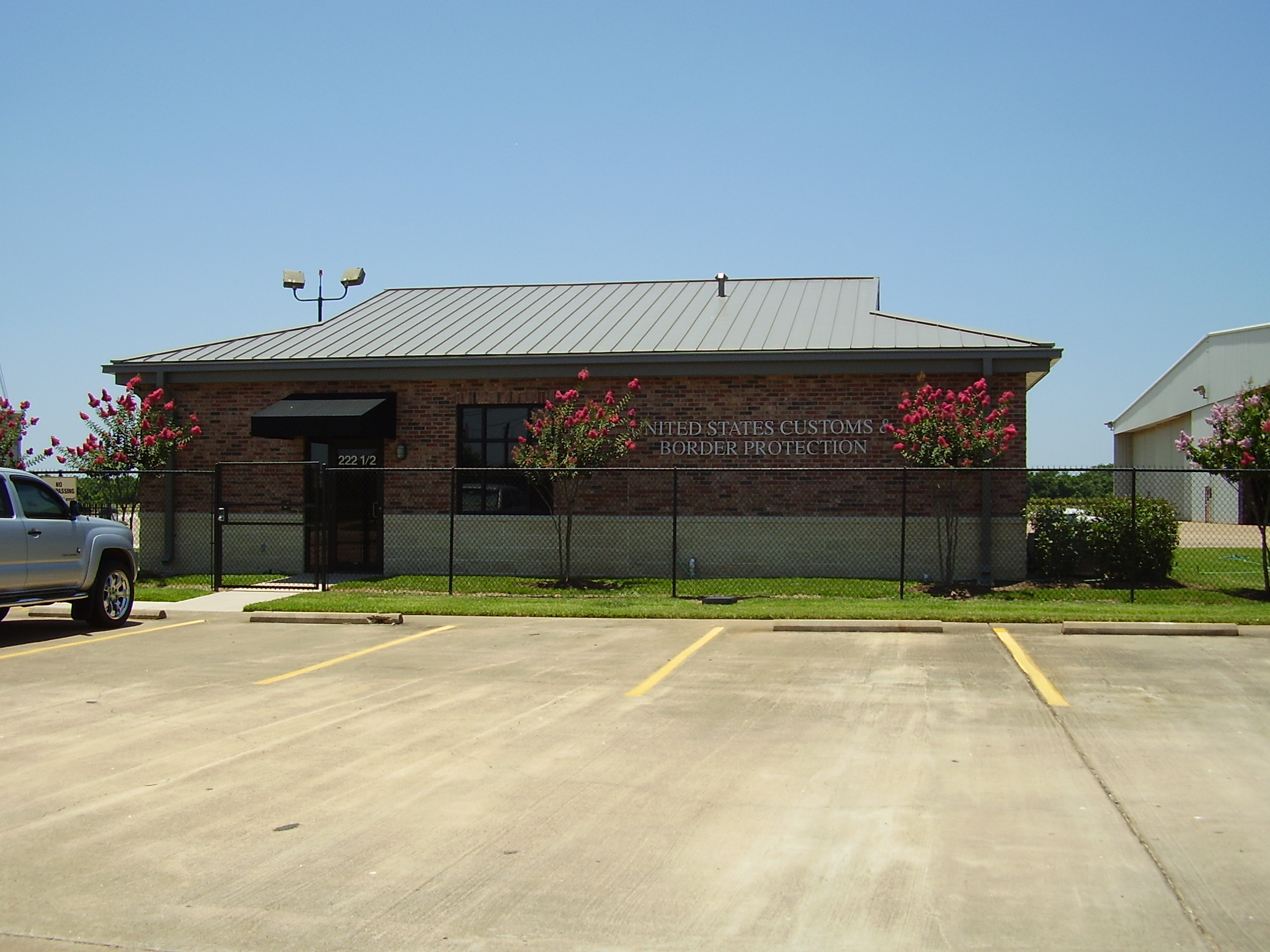 U.S. Customs and Border Patrol at Sugar Land Airport